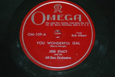 you wonderful gal jess stacy shellack